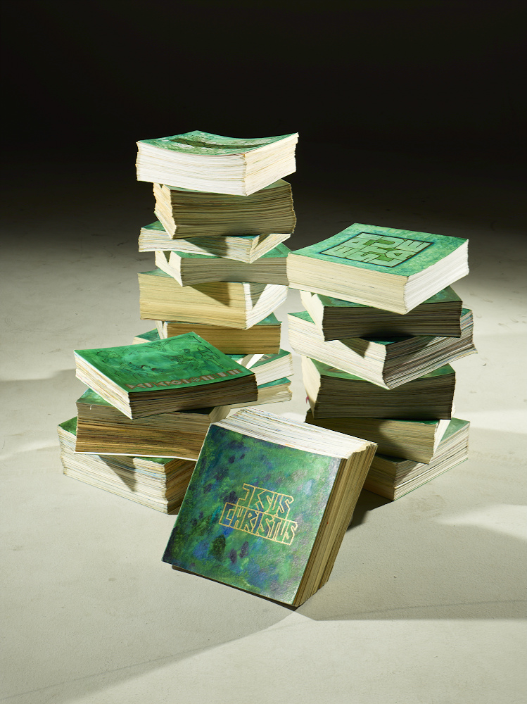 The World’s Longest Painted Bible Among his many professions, Willy Wiedmann worked as a church muralist. To him, the Biblical history was thus a theme that had long been familiar to him due to his work. Later in life, instead of realigning as an artist, he sought a new approach as well as a new challenge to his theme: He wanted to create the world’s longest painted Bible. He implemented this project over a course of 16 years — by means of meditative persistency and his scientific expertise.